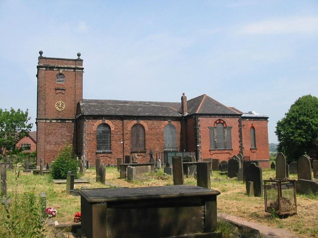 St Bartholomew's parish church, Norton in the Moors, Stoke-on-Trent, Staffordshire, seen from the south